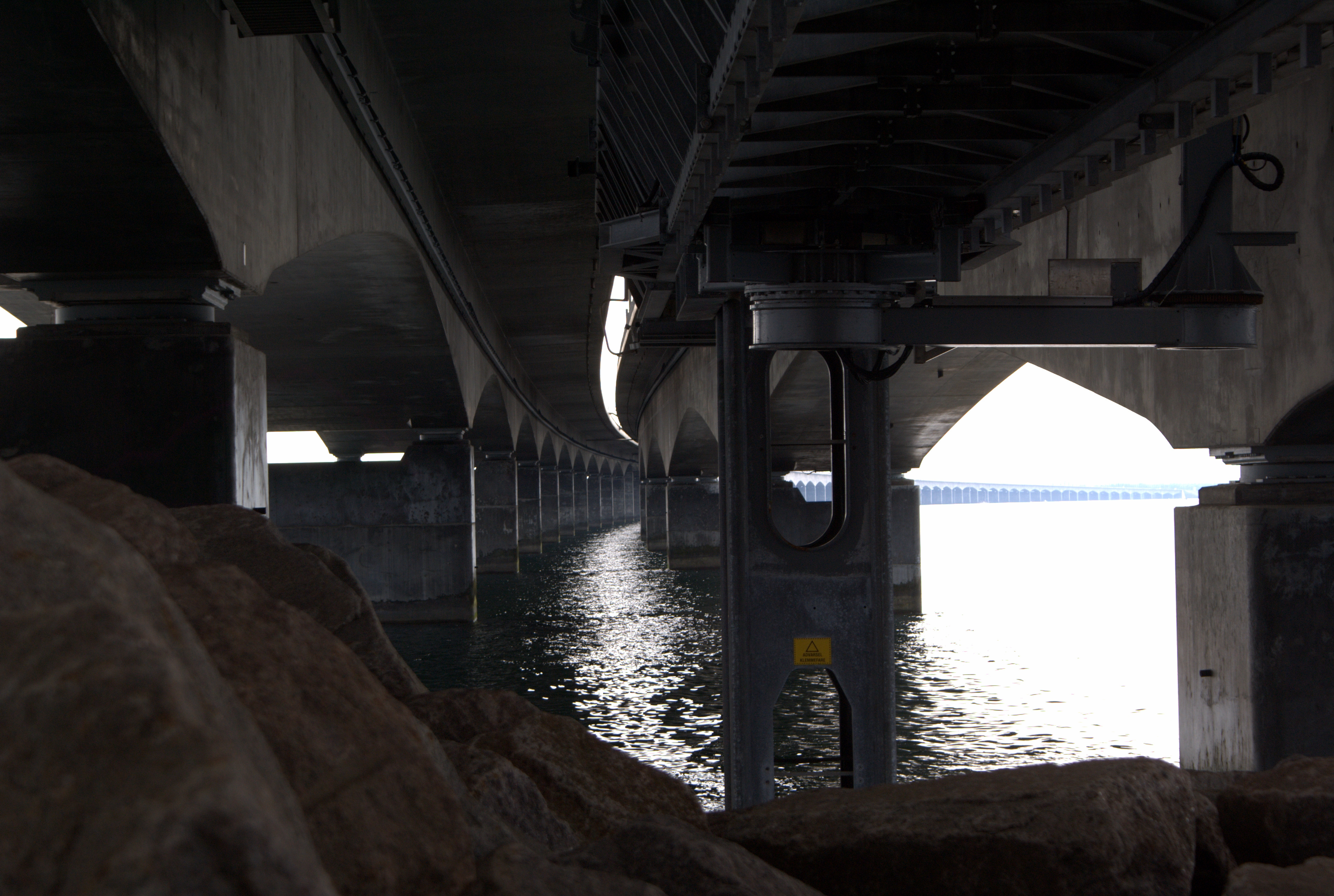 The western bridge of the Greatbelt